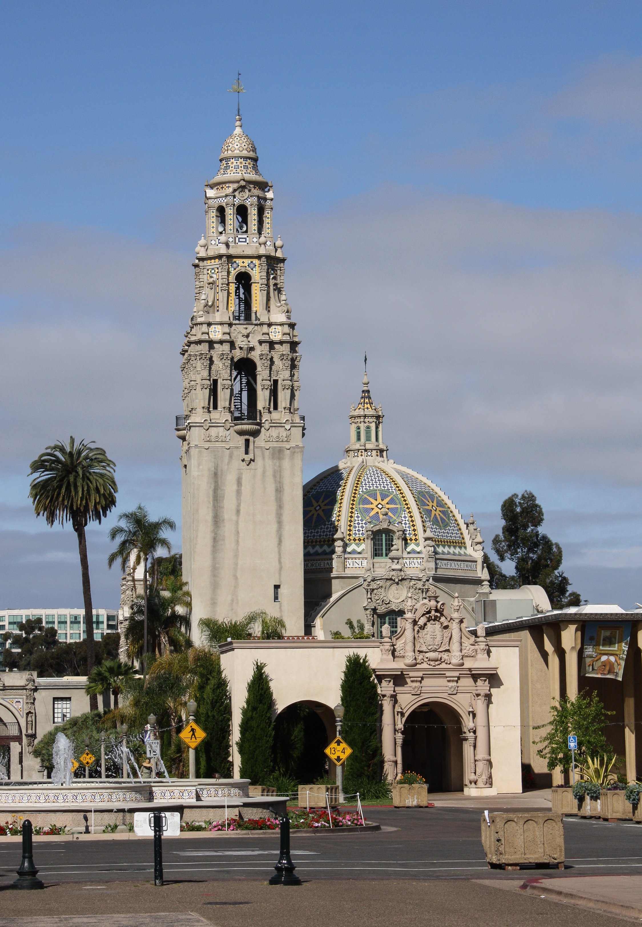 San Diego Museum of Man, San Diego, California